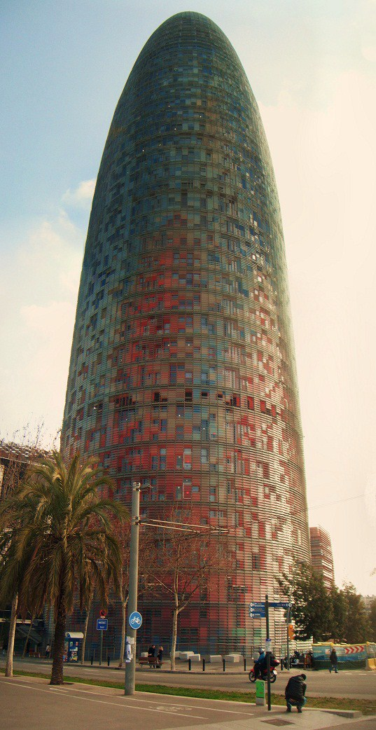 Torre Agbar Barcelona